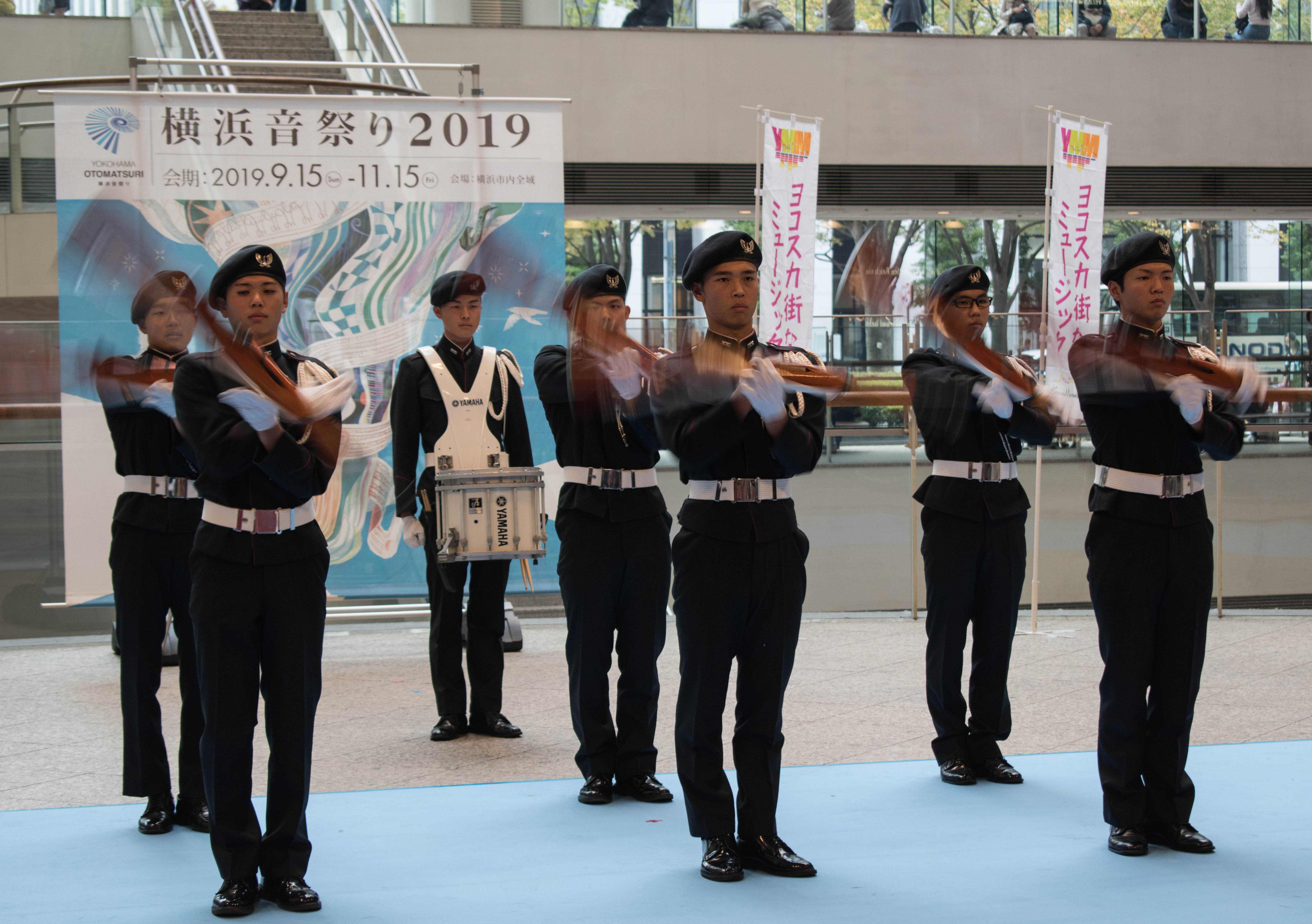 Rifle drill team of the Japan Ground Self-Defense Force High Technical School, JGSDF's military high school. At Queen's Square YOKOHAMA.